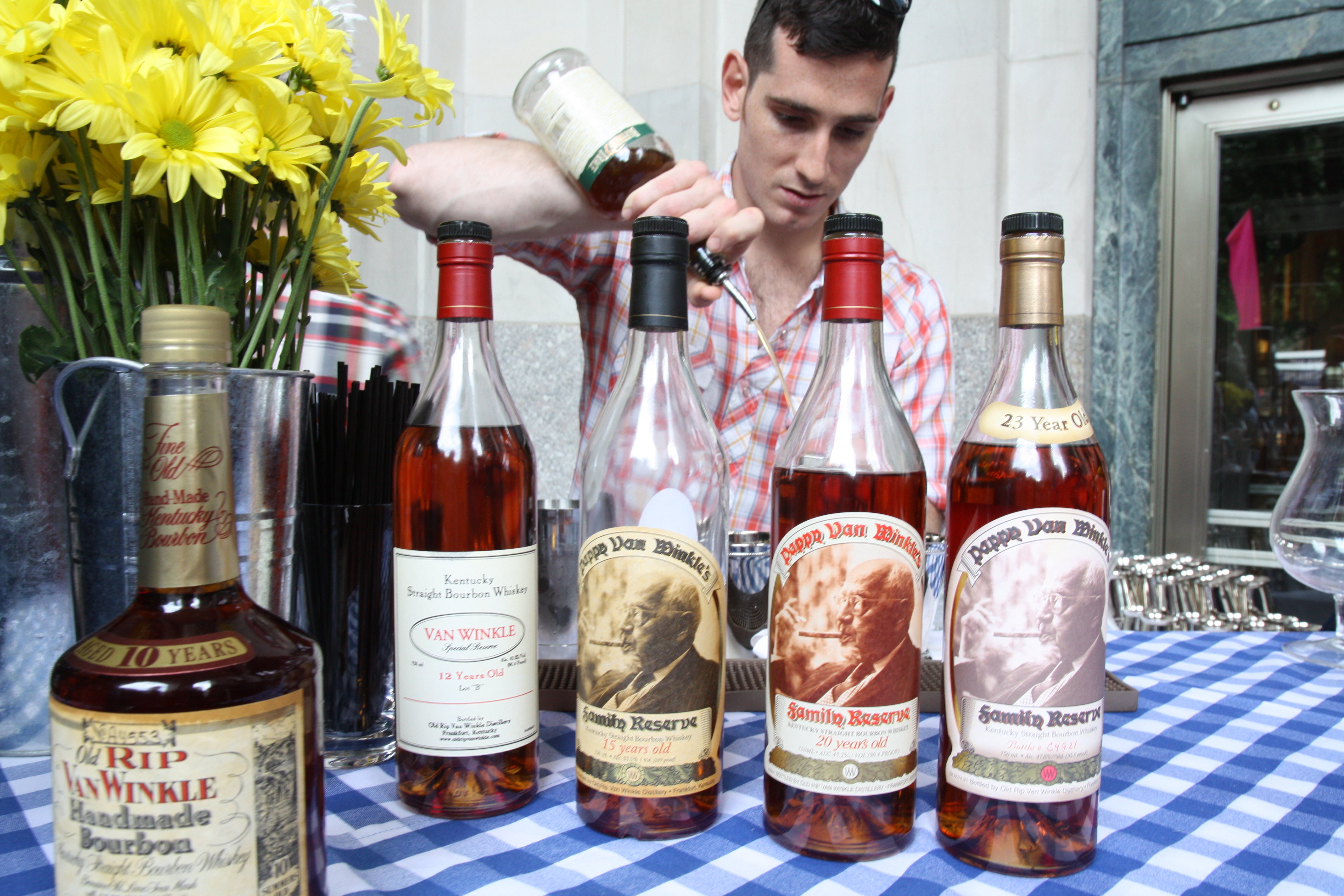 Van Winkle selection being served at a BBQ party